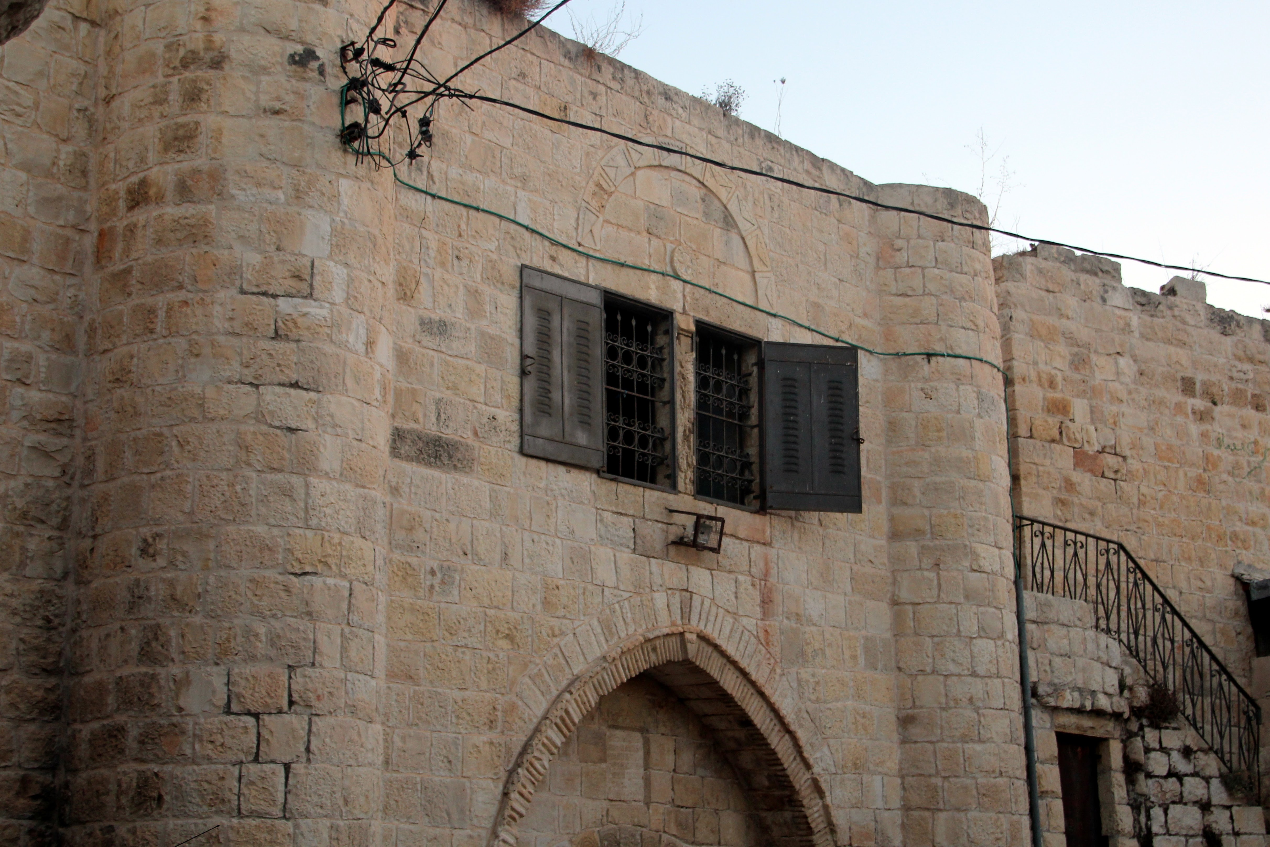 Wall of Al Samhan Castle, Ras Karkar